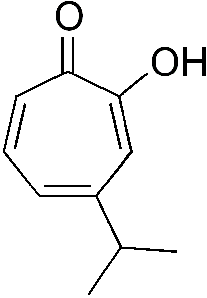 chemical structure of gamma-thujaplicin